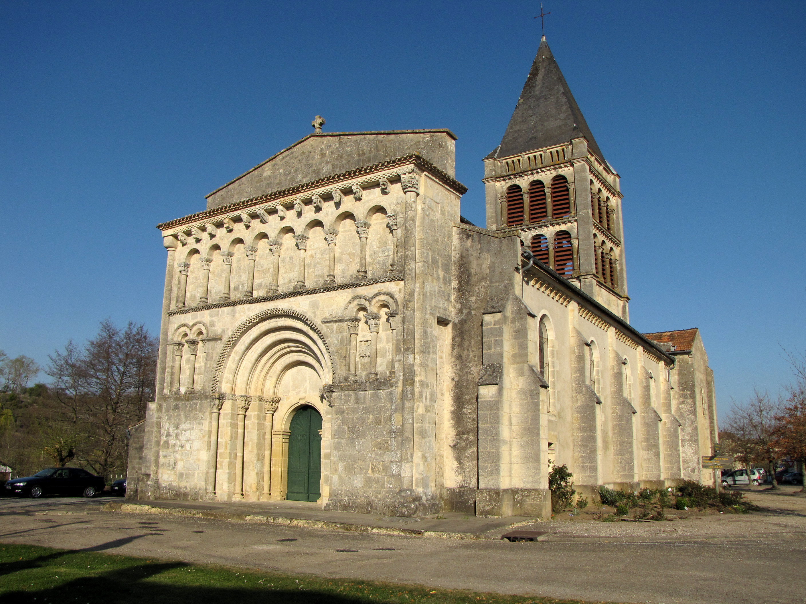 Église Notre-Dame d'Aillas